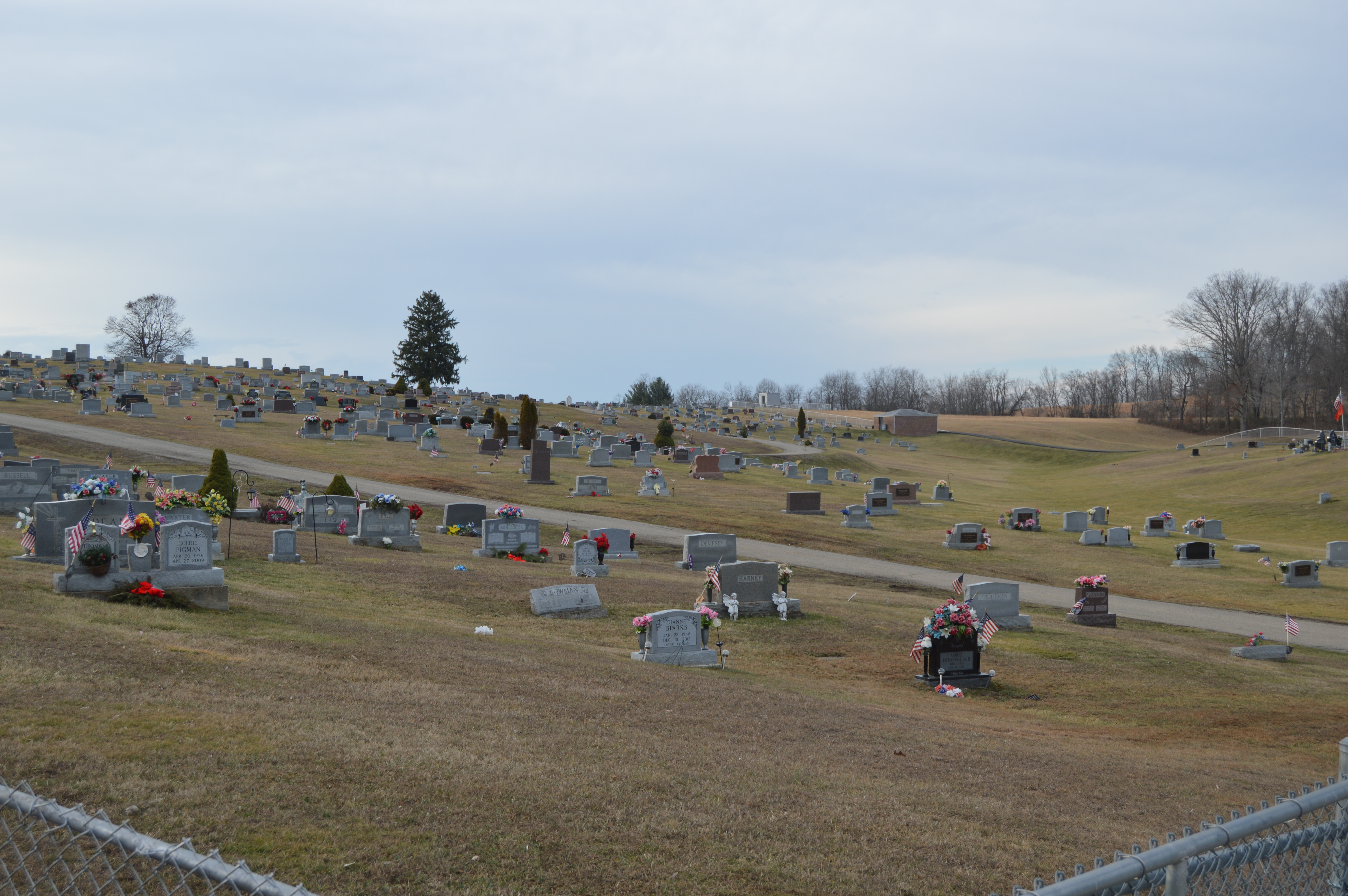 Overview of the Oak Hill Cemetery, located along State Route 279 east of Oak Hill in Madison Township, Jackson County, Ohio, United States.